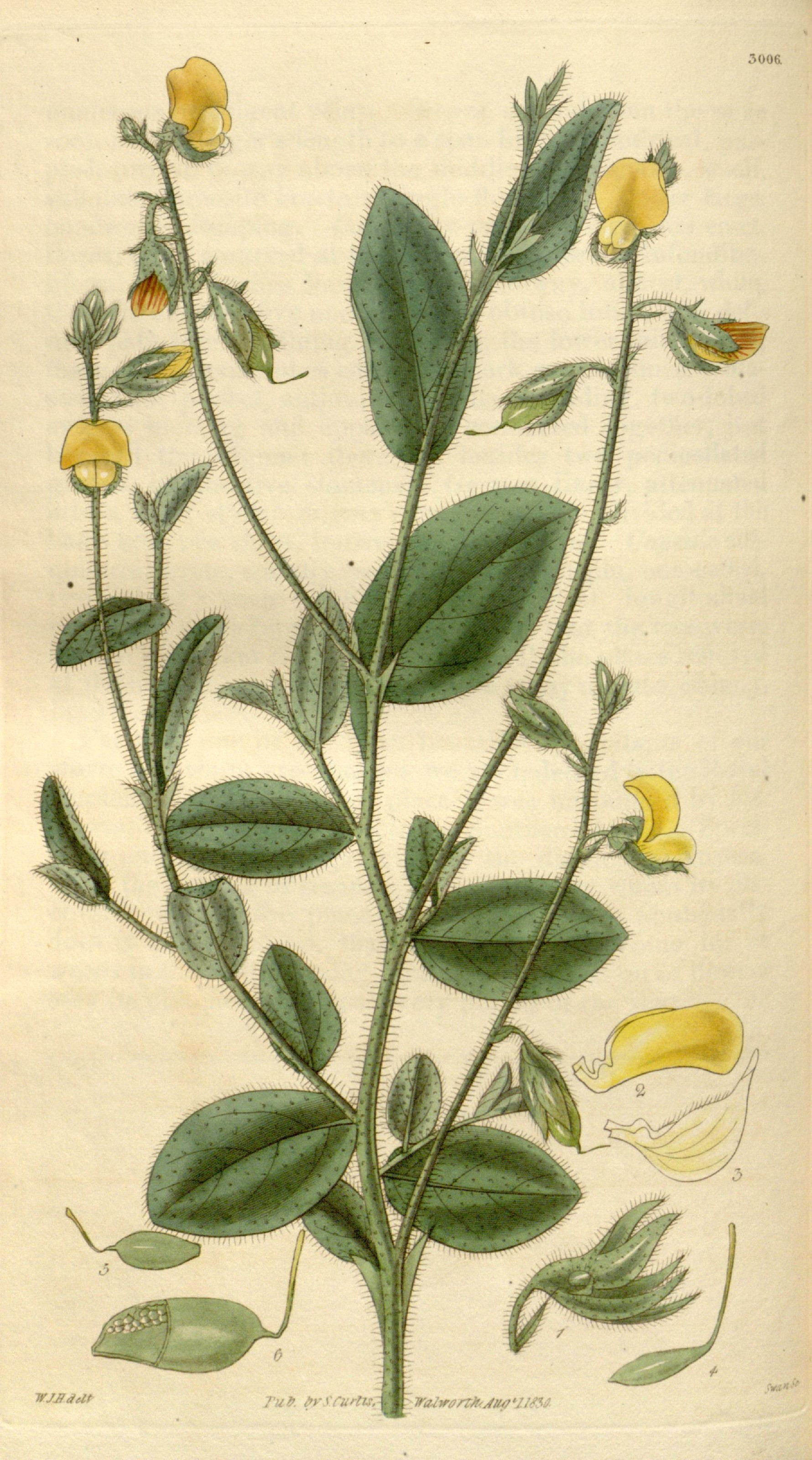 Curtis's botanical magazine.